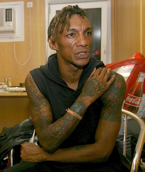 Tricky - August 13, 2009